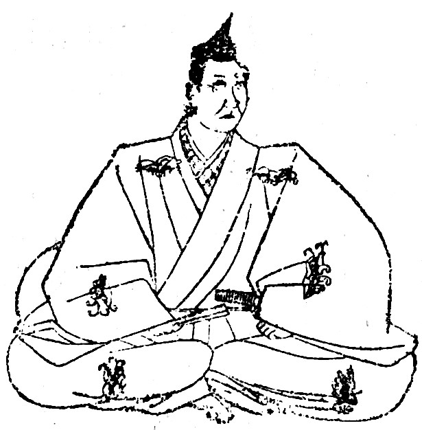 Portrait Sasaki Takatsuna